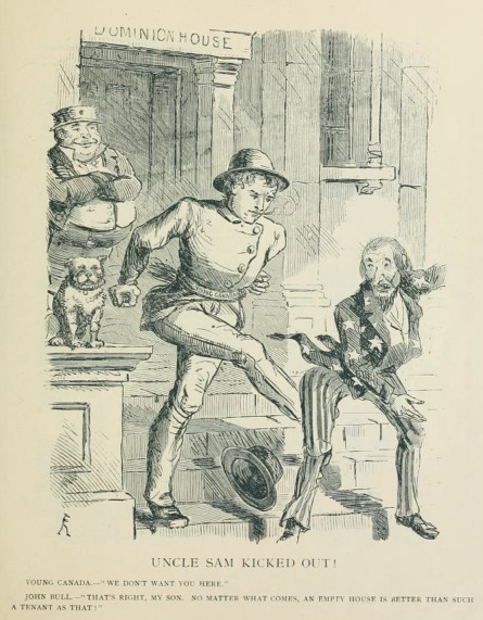 "Uncle Sam Kicked out!" Anti-annexation sentiment in Canada is displayed in this 1869 cartoon by "Grinchuckle". Uncle Sam gets the boot from Young Canada as John Bull (and his bulldog) look on approvingly.